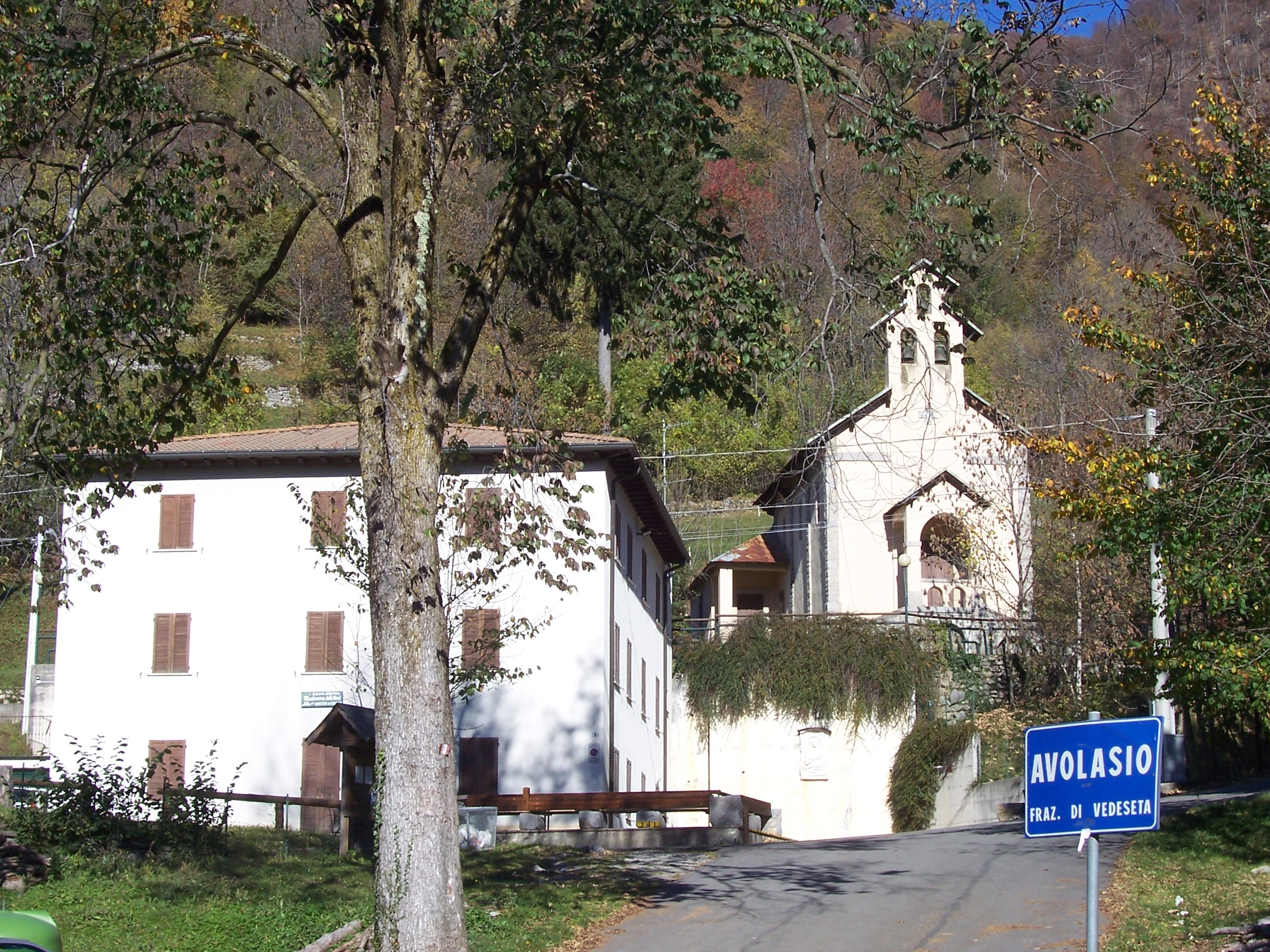 Avolasio (Vedeseta), Lombardy, Italy